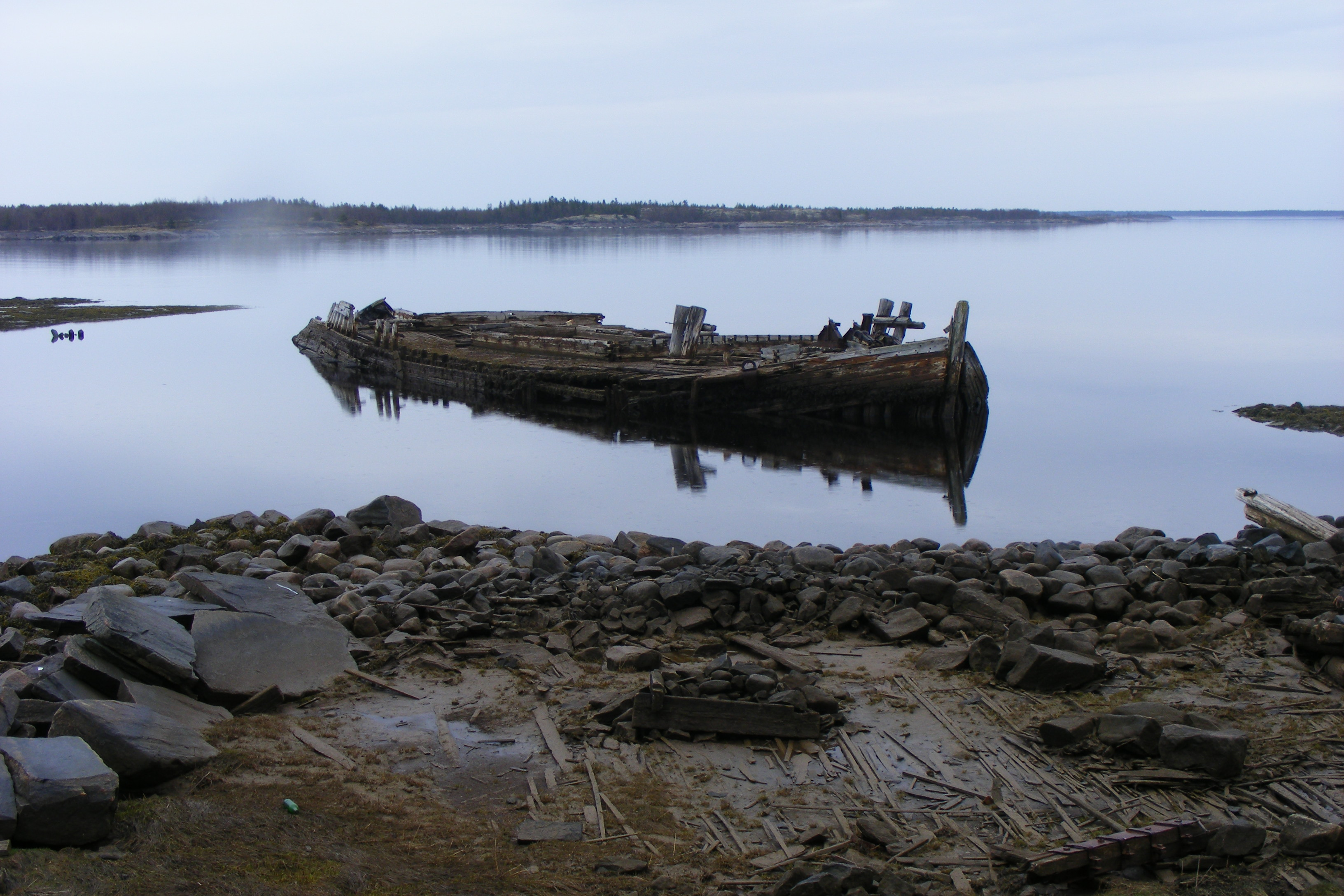 The barge - "Ostrov" movies scenery, Rabocheostrovsk, Russia.